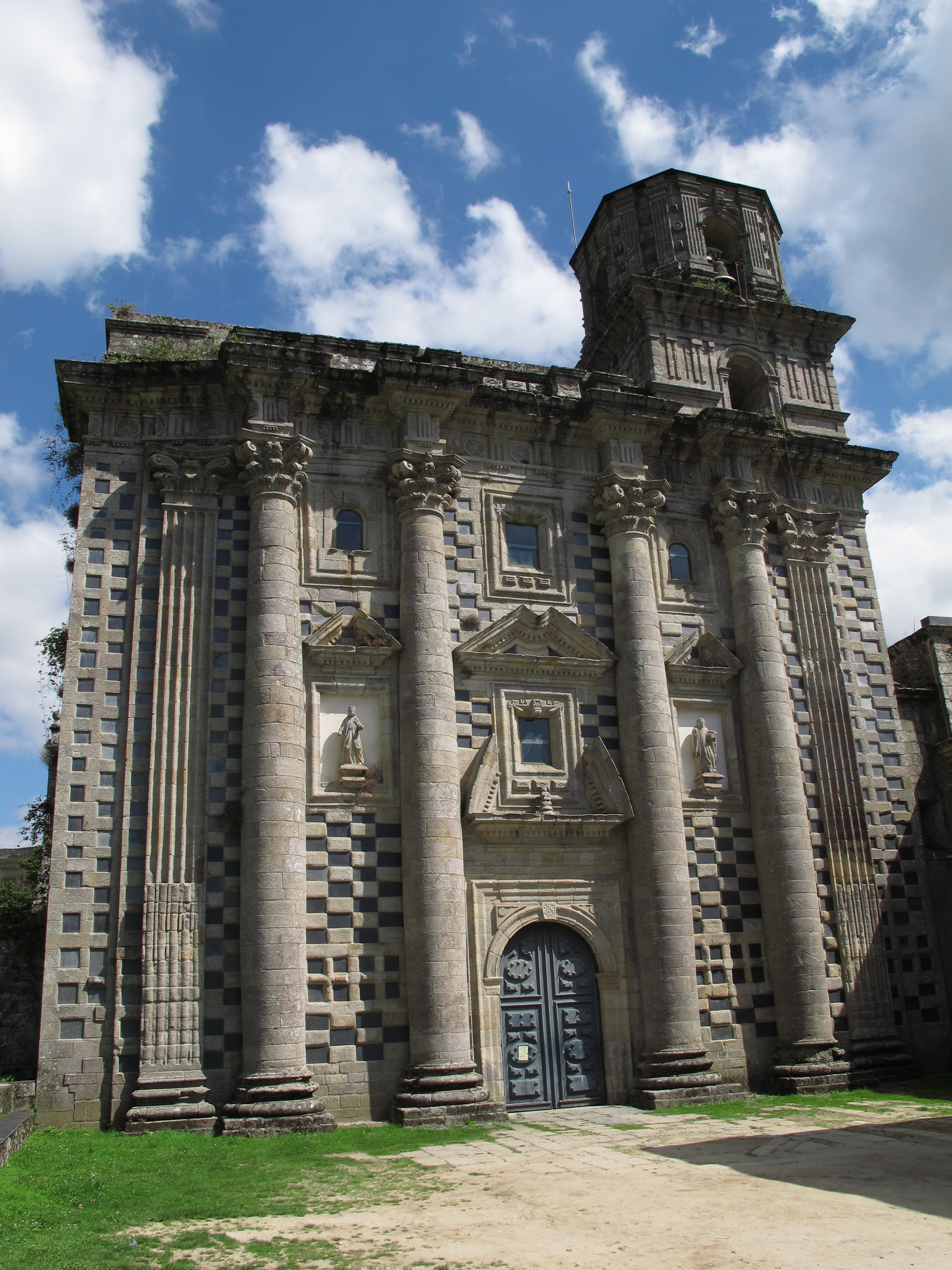 Monfero Abbey, a monastary next to river Eume in Galicia, Spain